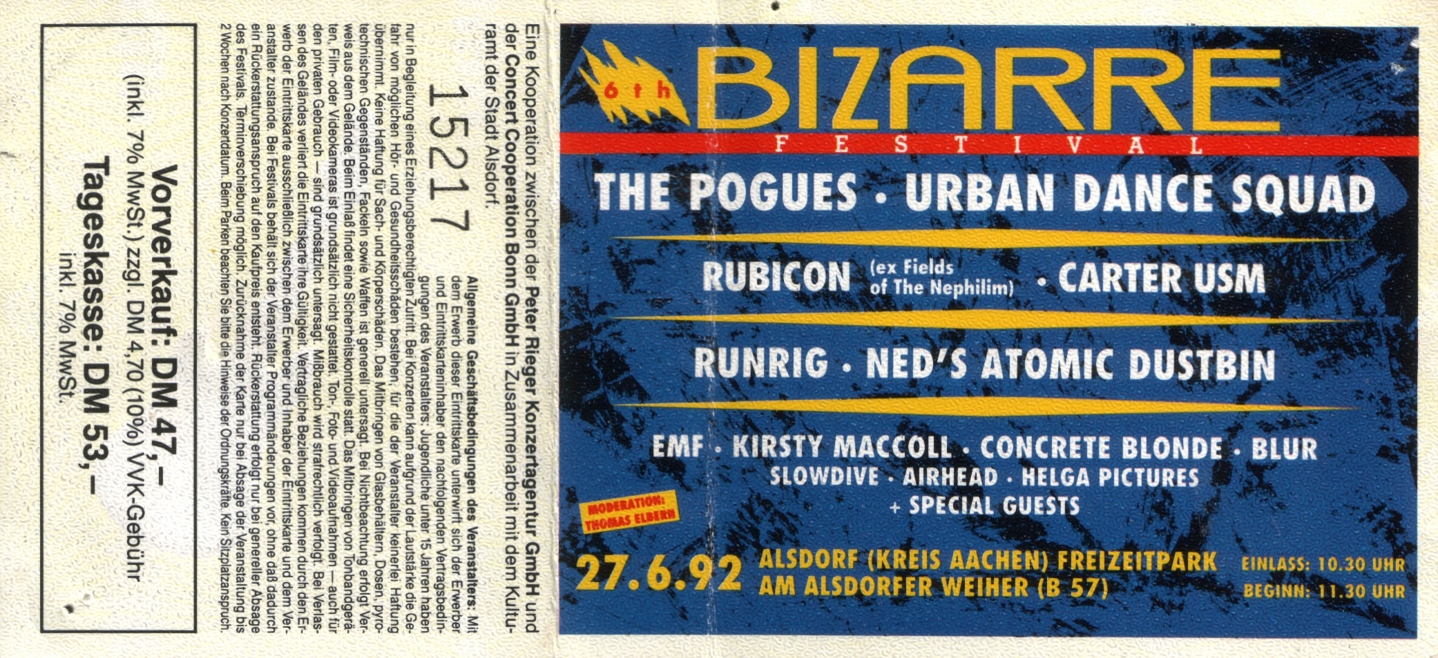 The Pogues Alsdorf, Bizarre Festival, 1992.